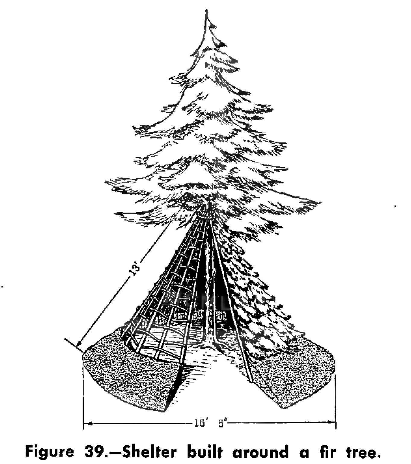 The 1942 German Taschenbuch für den Winterkrieg manual contains discusses winter, mud, and thaw with sections on the influence and duration of winter, the seasons of mud and thaw, preparation for winter warfare, winter combat methods and maintaining morale, including the use of reading material, lectures, movies, and "strength through joy" exercises. Other sections cover marches, the maintenance of roads, winter bivouacs and shelter, construction of winter positions, camouflage and concealment, identification of the enemy, clothing, rations, evacuation of the wounded, care and use of weapons and equipment, signal communication, and winter mobility. The manual was designed to provide information at the officer level for indoctrination of troops via the non-commissioned officer ranks.